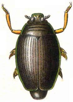 Gyrinus natator